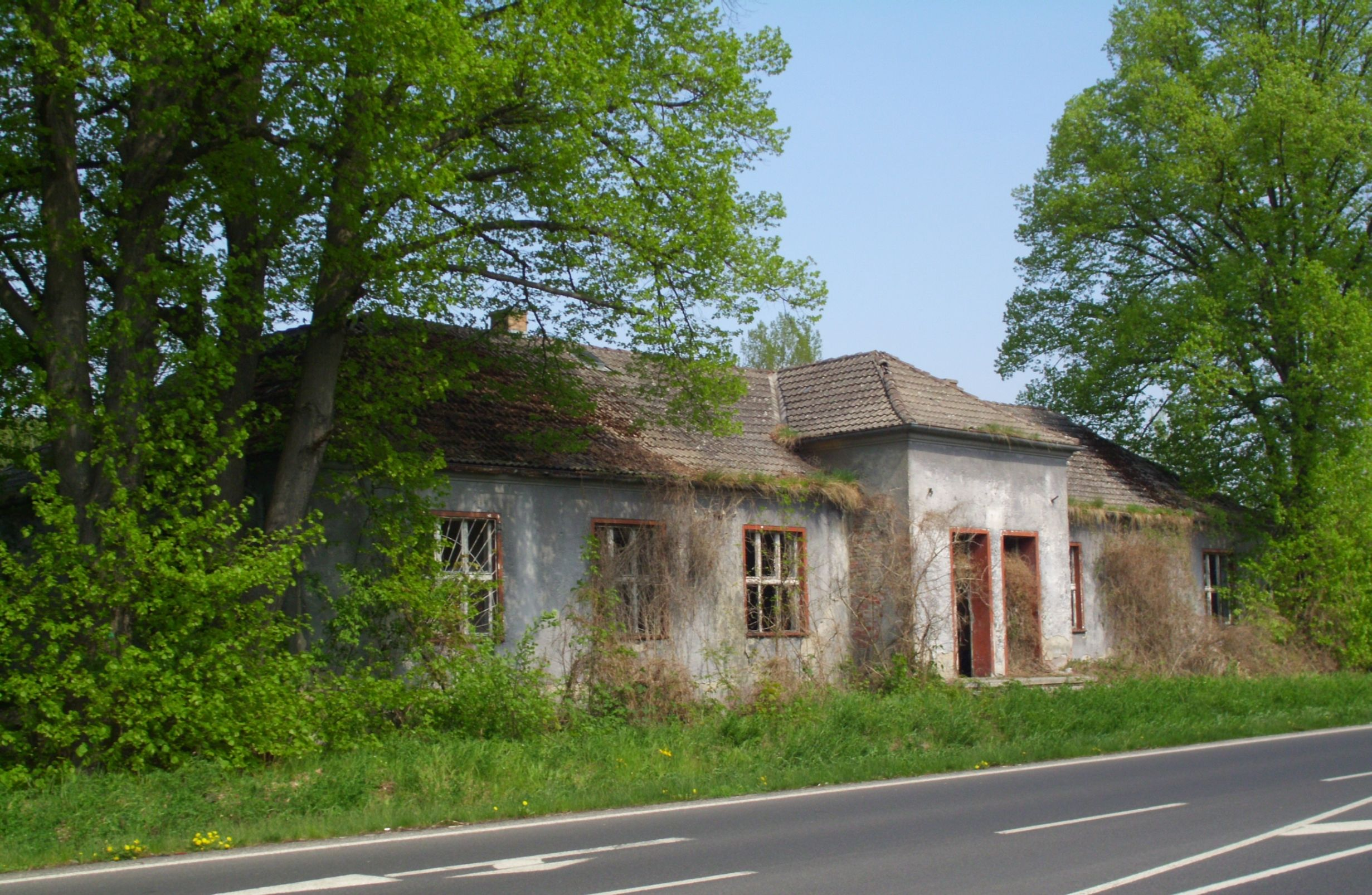 Küstrin-Kietz Oderinsel, train station building - street side